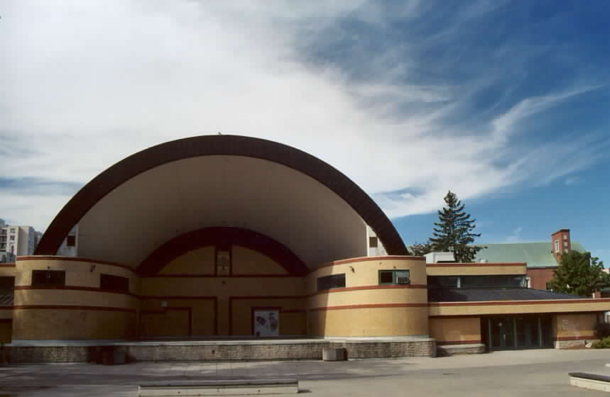 photo by Einar Einarsson Kvaran Victoria Park (London), in Ontario, Canada